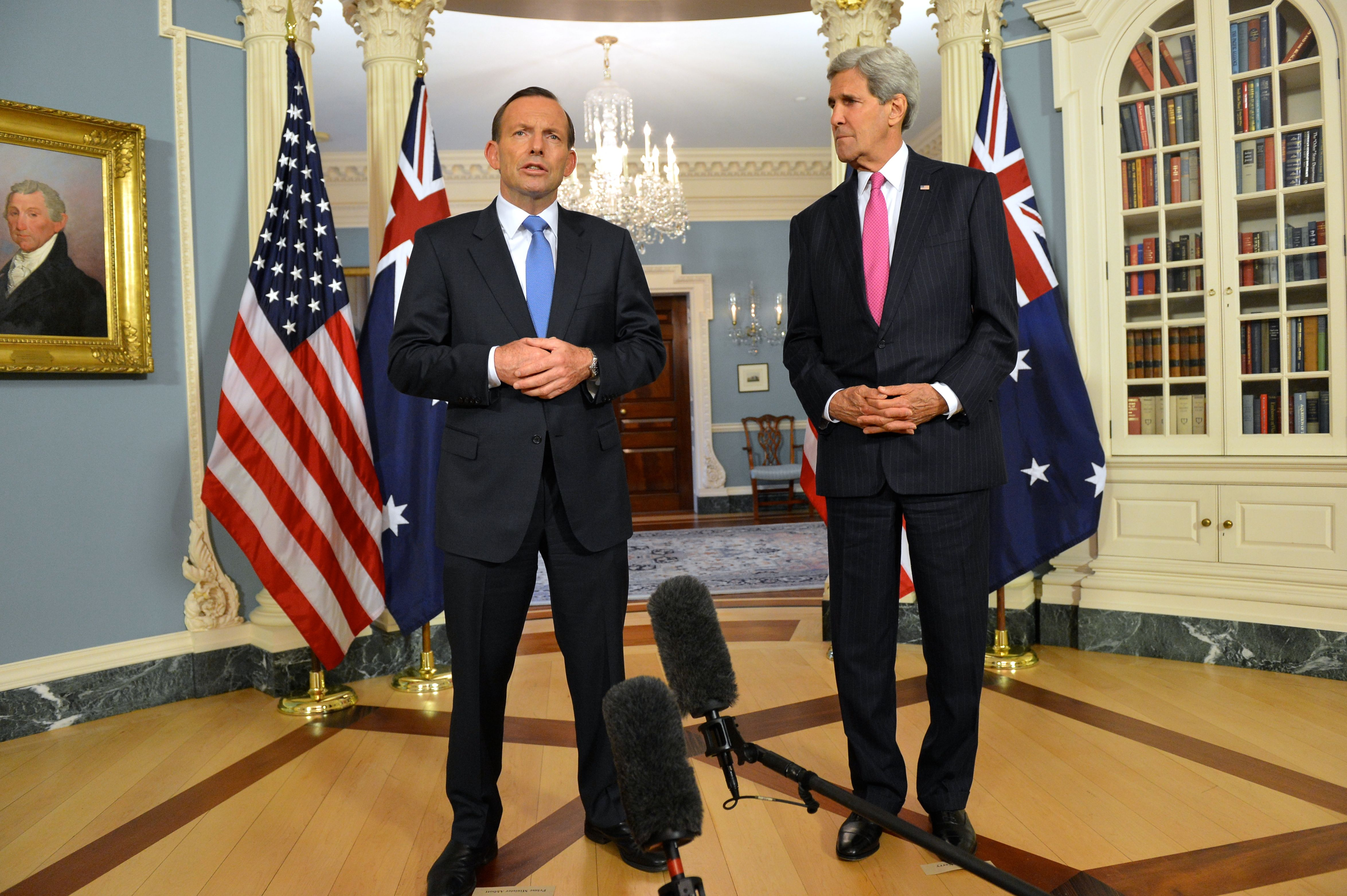 U.S. Secretary of State John Kerry and Australian Prime Minister Tony Abbott address reporters at the U.S. Department of State in Washington, D.C., on June 12, 2014. [State Department photo/ Public Domain]